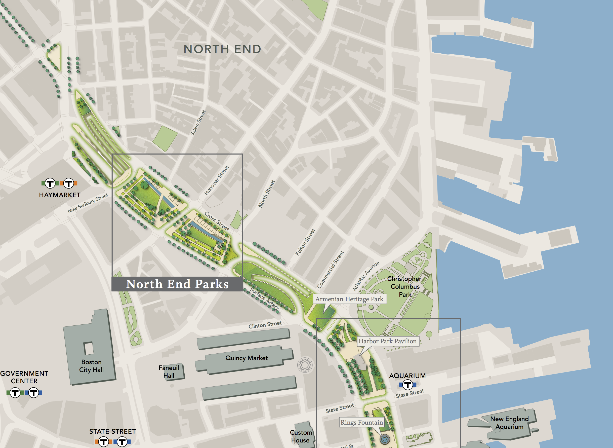 The Rose Kennedy Greenway (Boston) is a linear park made of many different small parks. This map detail shows Boston's North End, the North End Parks, and the Armenian Heritage Park.